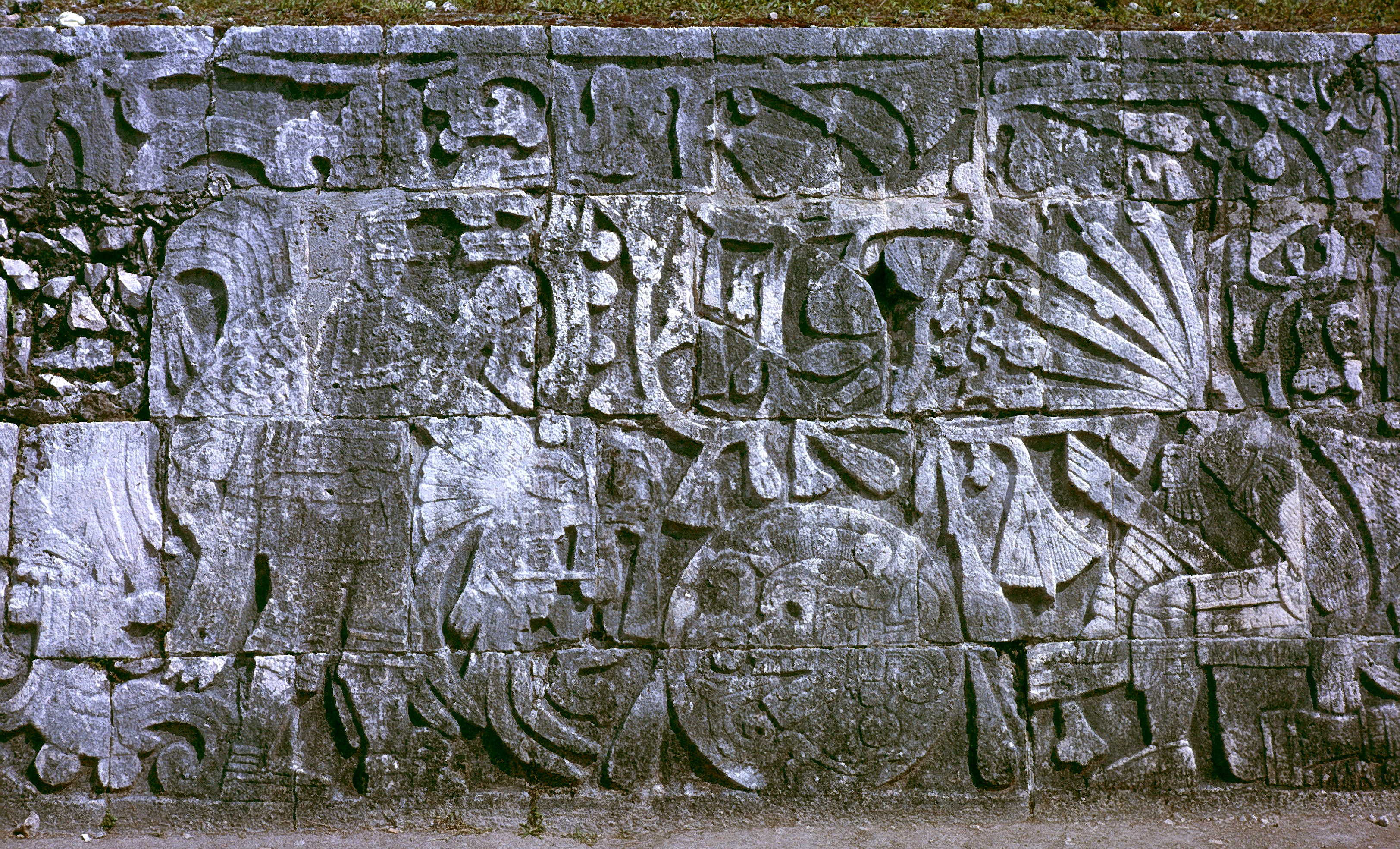 Chichen Itza,Yucatan, Mexico: Ballcourt reliefs